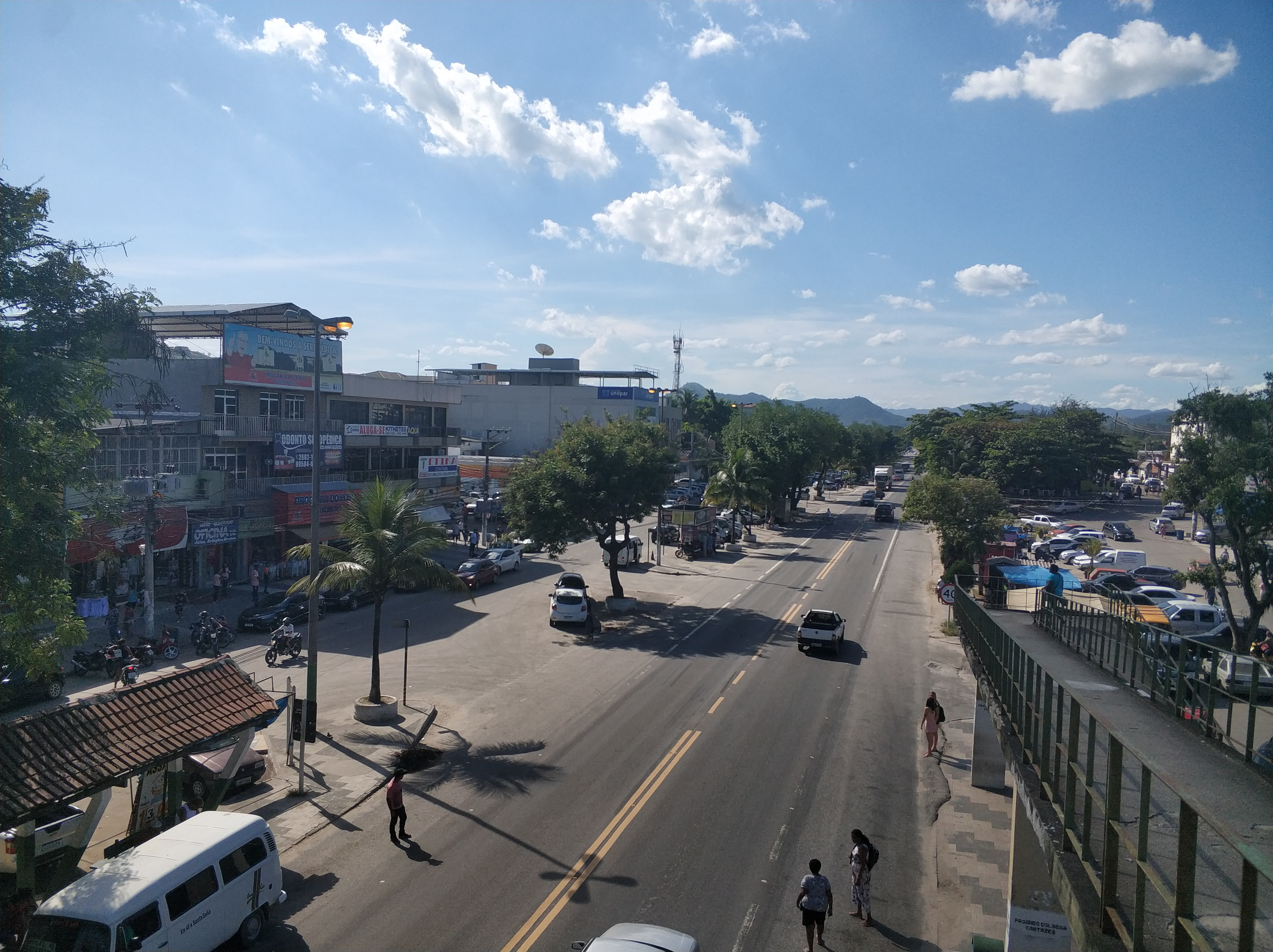 Downtown Seropédica.